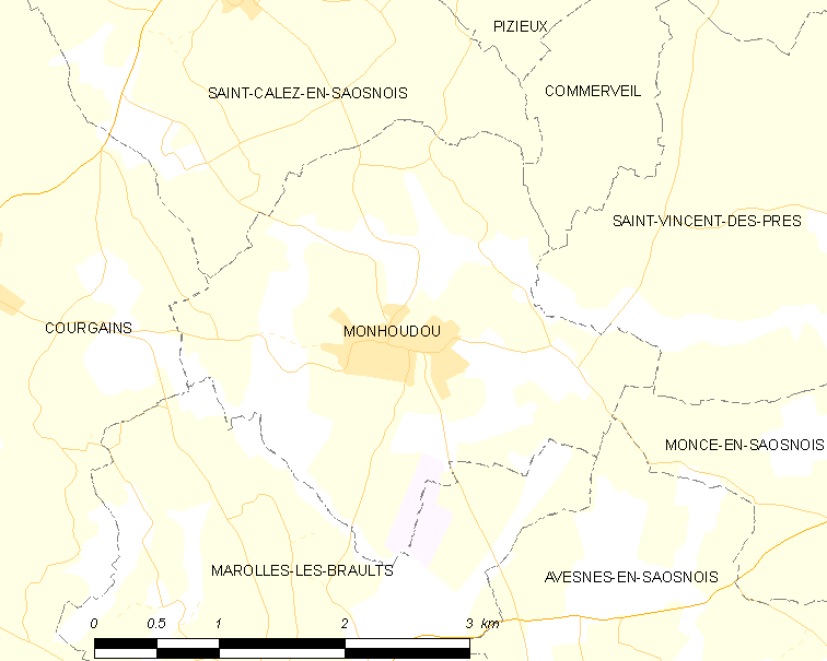 Map of French municipality